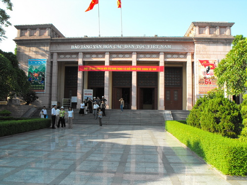 Museum of Ethnic Culture Vietnam, Thái Nguyên, Vietnam